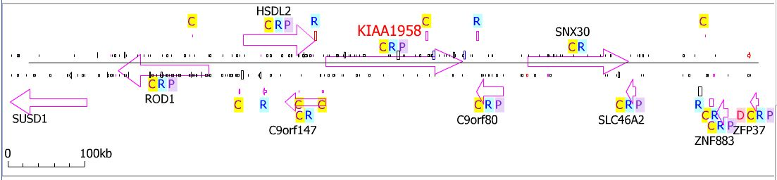 Genes neighboring KIAA1958 on chromosome 9.